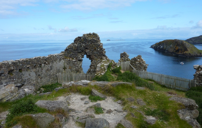 Duntulm Castle, Duntulm, Skye, Scotland - interior looking north across Duntulm Bay